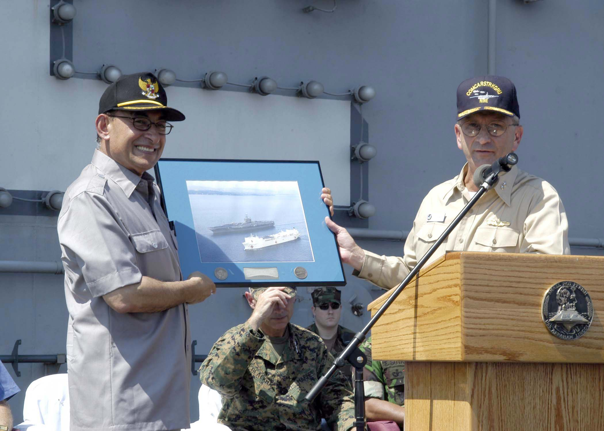 Indian Ocean (Feb. 3, 2005) — Commander Carrier Strike Group Nine (CSG-9), Rear Adm. Doug Crowder presents Indonesian Minister of People's Welfare, Mr. Alwi Shihab, with a framed photo commemorating the humanitarian relief effort in the wake of the tsunami that struck Southeast Asia, during a farewell ceremony on the flight deck aboard USS Abraham Lincoln (CVN-72). The Abraham Lincoln Carrier Strike Group has been operating in the Indian Ocean off the waters of Indonesia in support of Operation Unified Assistance.